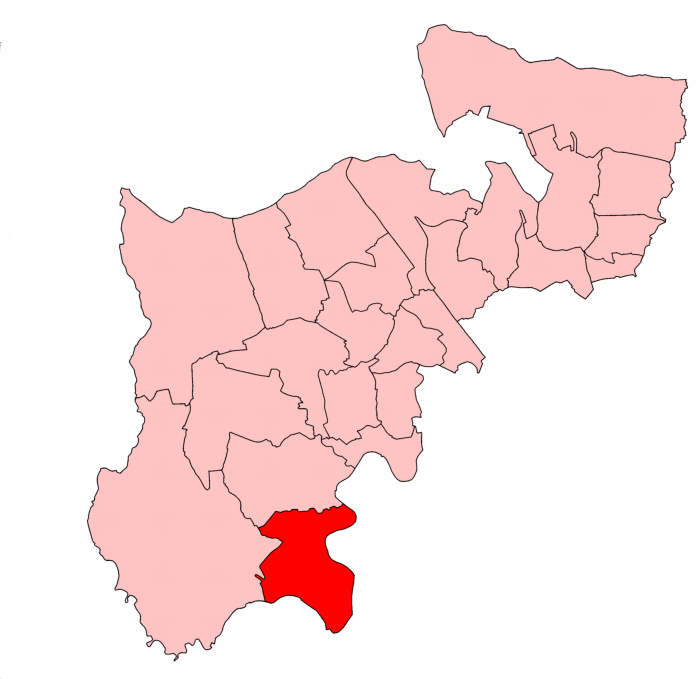 A map of Twickenham constituency within Middlesex, as it existed from 1945 to 1950.